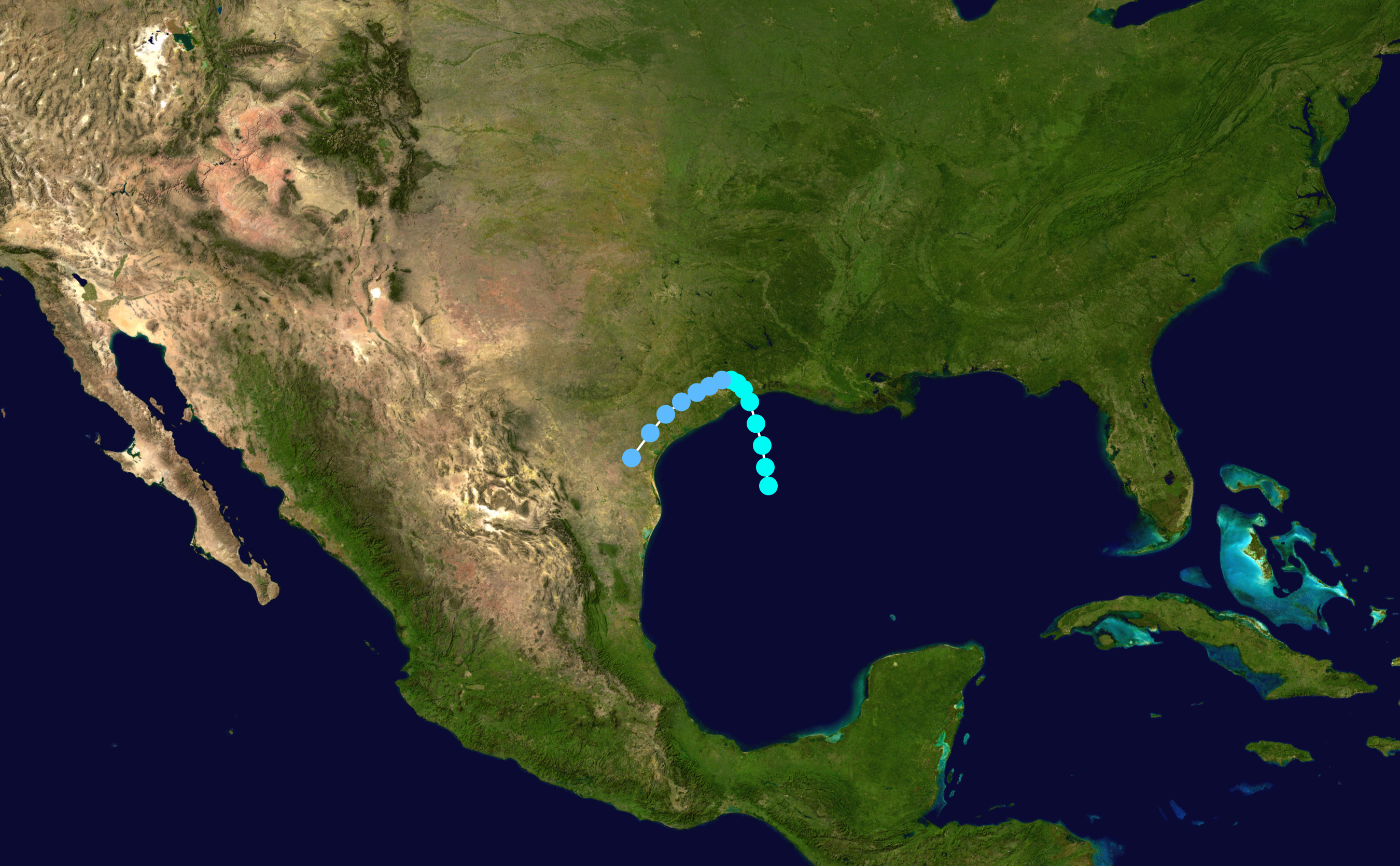 Track map of Tropical Storm Cindy of the 1963 Atlantic hurricane season. The points show the location of the storm at 6-hour intervals. The colour represents the storm's maximum sustained wind speeds as classified in the Saffir–Simpson scale (see below), and the shape of the data points represent the nature of the storm, according to the legend below. Saffir–Simpson scale Tropical depression≤38 mph≤62 km/h Category 3111–129 mph178–208 km/h Tropical storm39–73 mph63–118 km/h Category 4130–156 mph209–251 km/h Category 174–95 mph119–153 km/h Category 5≥157 mph≥252 km/h Category 296–110 mph154–177 km/h Unknown Storm type Tropical cyclone Subtropical cyclone Extratropical cyclone / Remnant low / Tropical disturbance / Monsoon depression